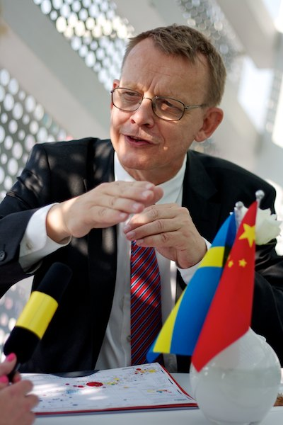 Professor Hans Rosling visited the Swedish pavilion on Monday, May 31.